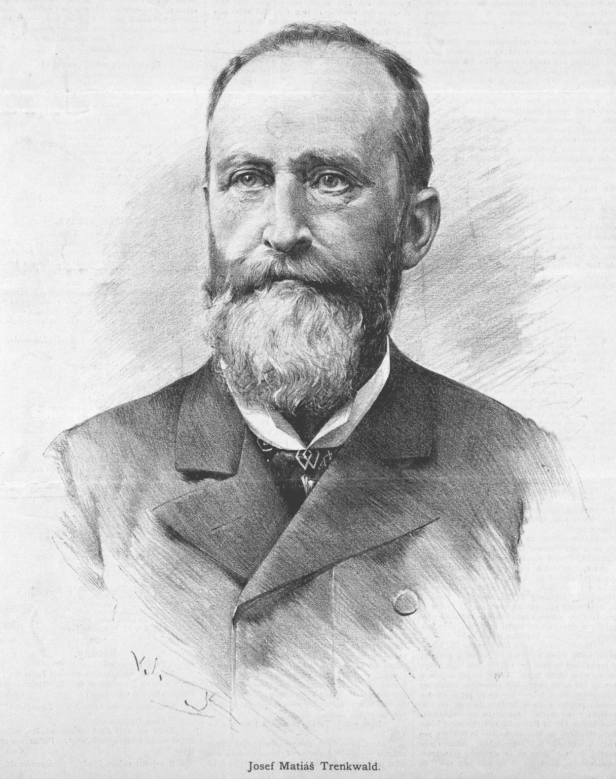 Portrait of Josef Matyáš Trenkwald (1824-1897), Czech-Austrian painter.